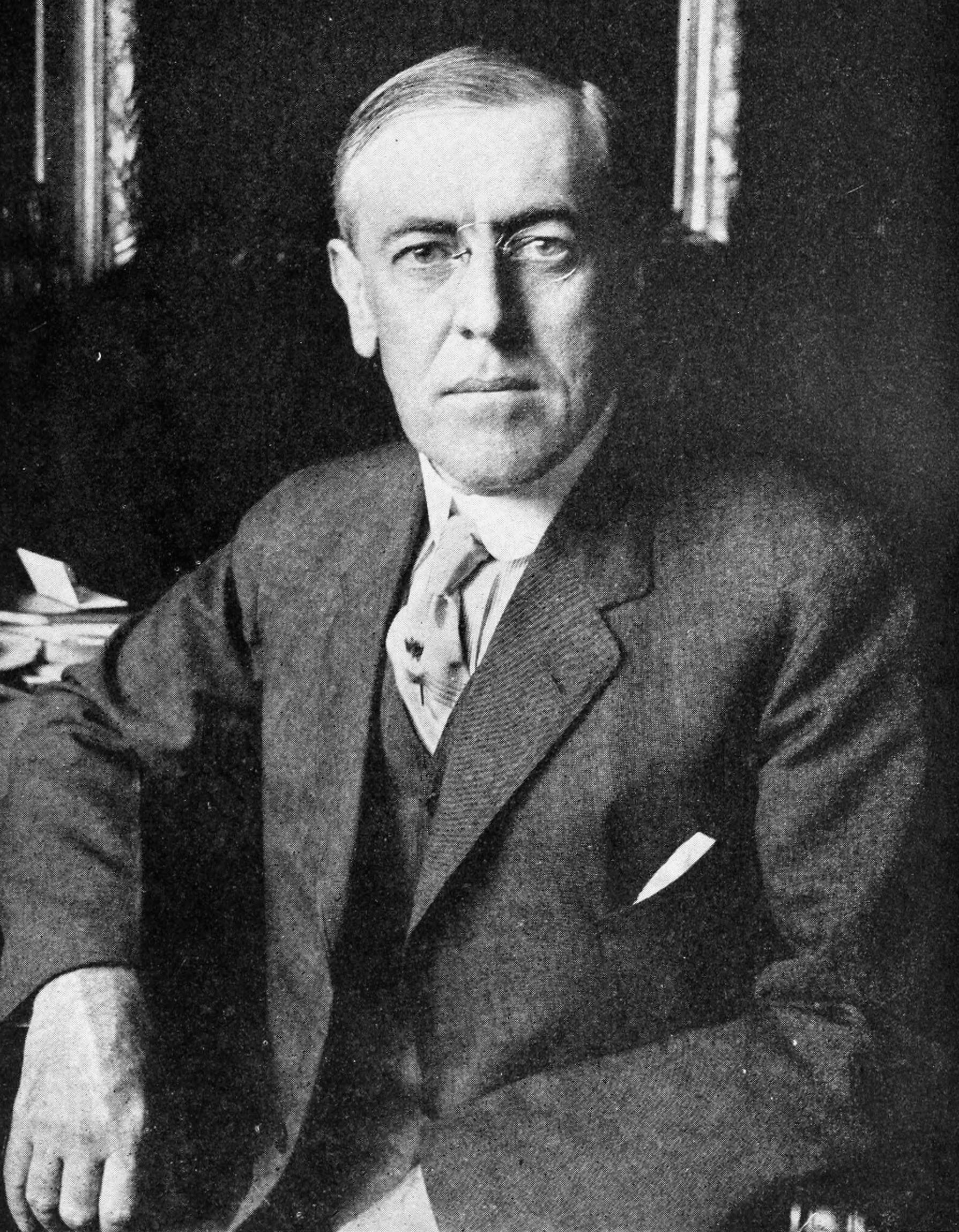 Portrait photograph of United States President Woodrow Wilson